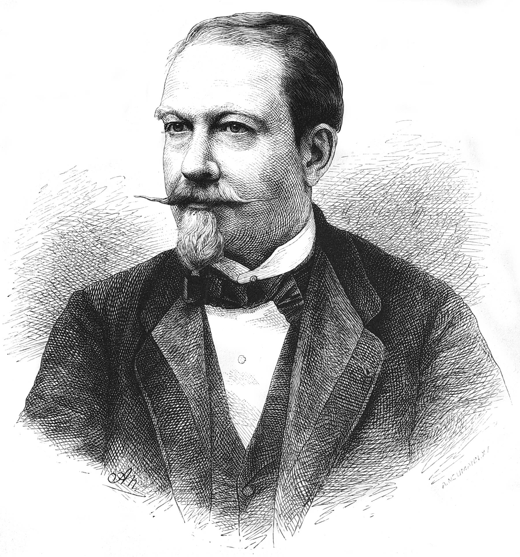 caption: "Adolphe van Soust de Borckenfeldt. Nach einer Photographie auf Holz gezeichnet von Adolf Neumann."